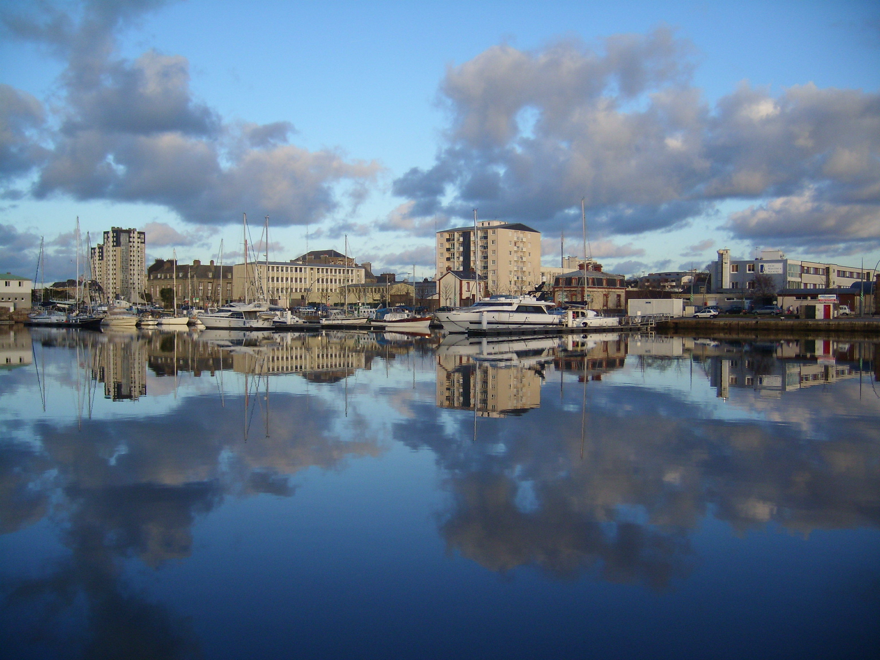 Cherbourg-Octeville